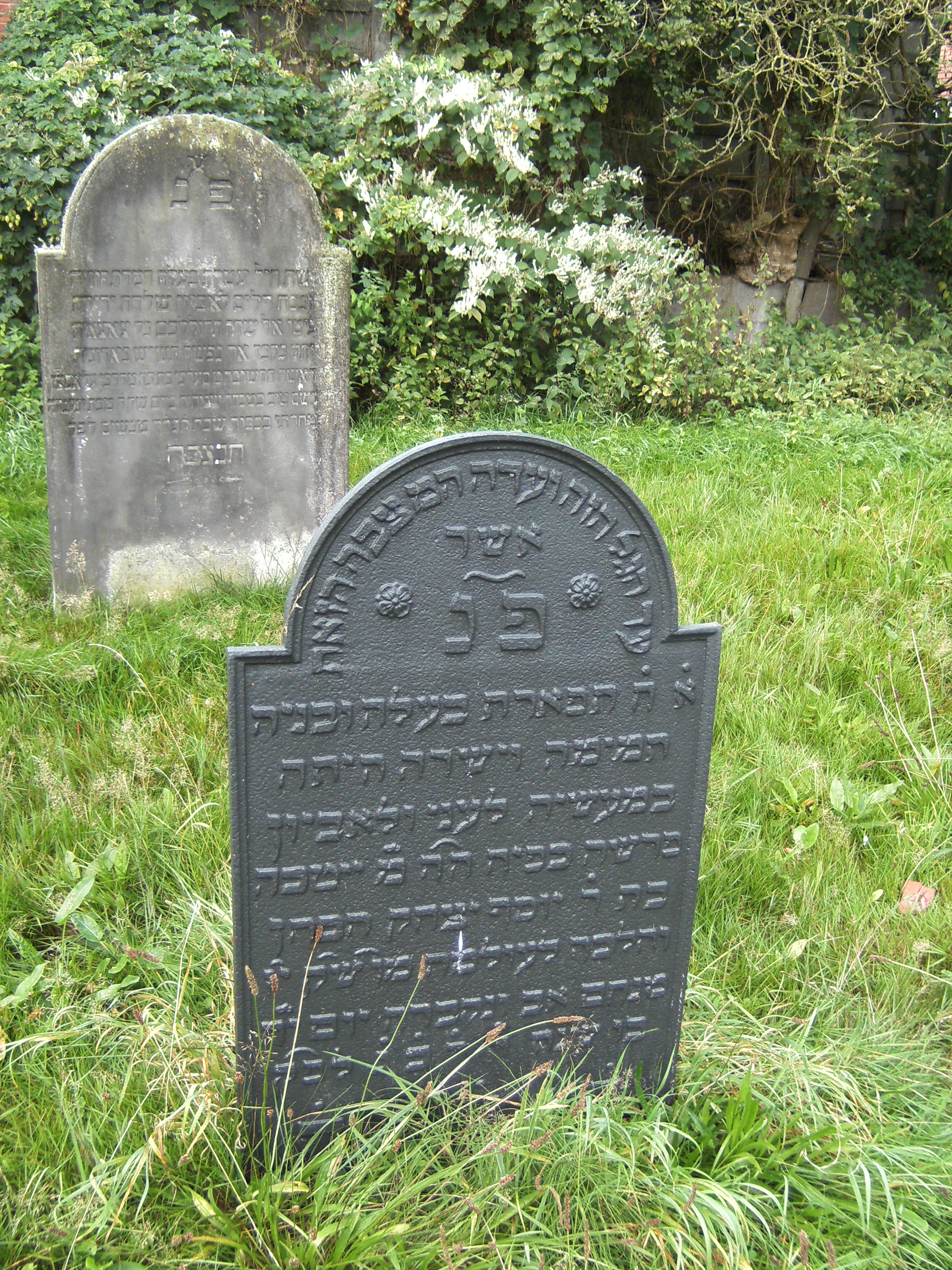 Jewish burial monument of cast iron in Goor The Netherlands